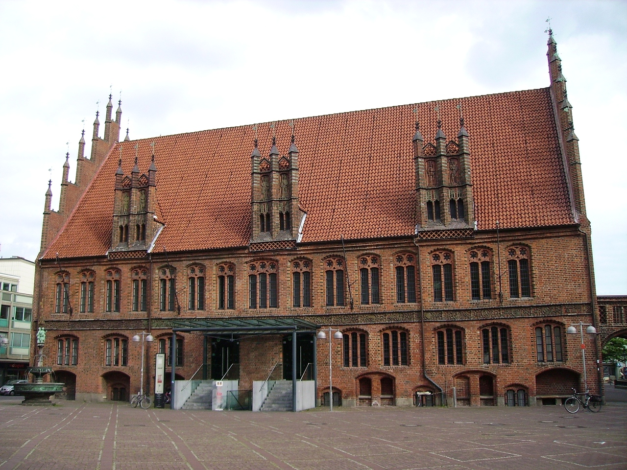 The Old Town Hall of Hanover in Germany